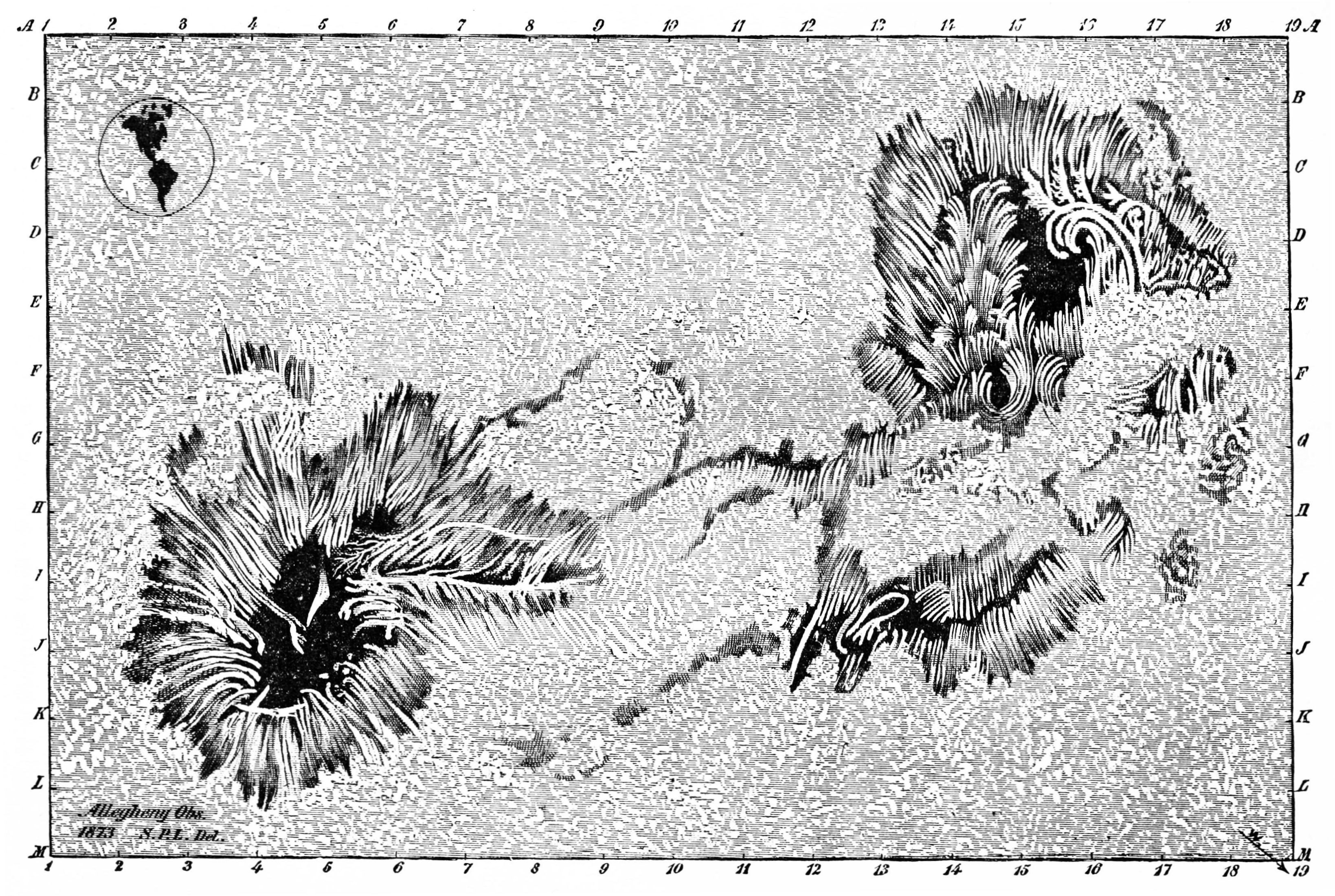 The photosphere and sun spots